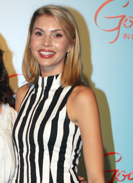 Abby Earl at the 'Goddess' world premiere; Bondi Junction, Sydney, Australia. Irish sensation Ronan Keating was there, as was West End and Broadway star Laura Michelle Kelly and much-loved comedian Magda Szubanski. Directed by: Mark Lamprell Starring: Ronan Keating, Magda Szubanski and Laura Michelle Kelly When a young mother mother of naughty twin boys Elspeth Dickens installs a webcam in her kitchen, her funny sink-songs make her a cyber-sensation. While husband James is off saving the world's whales, Elspeth is offered a chance of a lifetime. But when forced to choose between fame and family, the newly anointed internet goddess almost loses it all. Cast members attending world premiere: Ronan Keating, Laura Michelle Kelly, Magda Szubanski, Hugo Johnstone-Burt, Dustin Clare, Natalie Tran, Celia Ireland, Mike Goldman and director Mark Lamprell. Plot... Elspeth Dickens dreams of finding her "voice" despite being stuck in an isolated farmhouse with her twin toddlers. A web-cam becomes her pathway to fame and fortune, but at a price. Websites Village Roadshow Australia Eva Rinaldi Photography